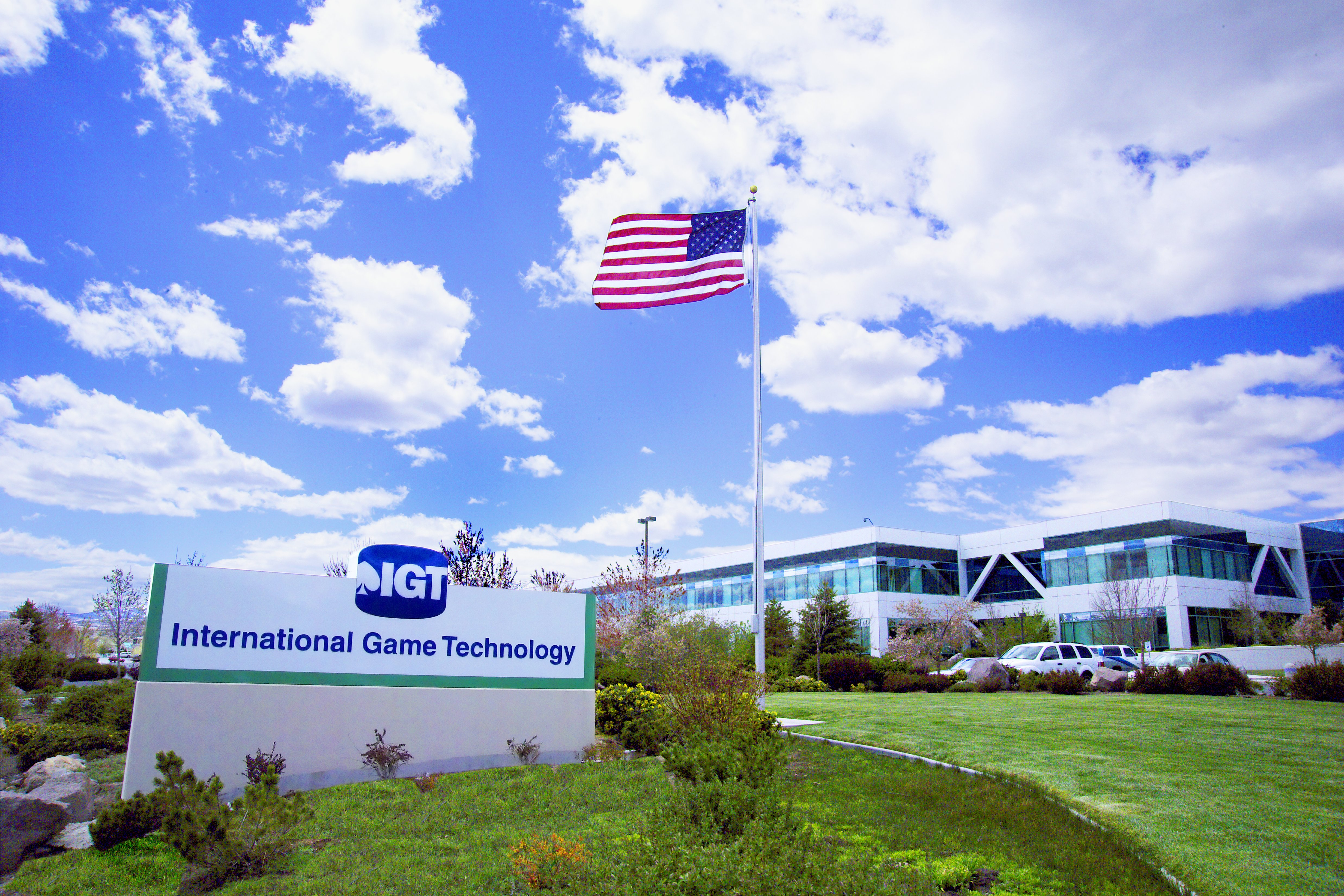 Entrance to IGT's headquarters complex in Reno.